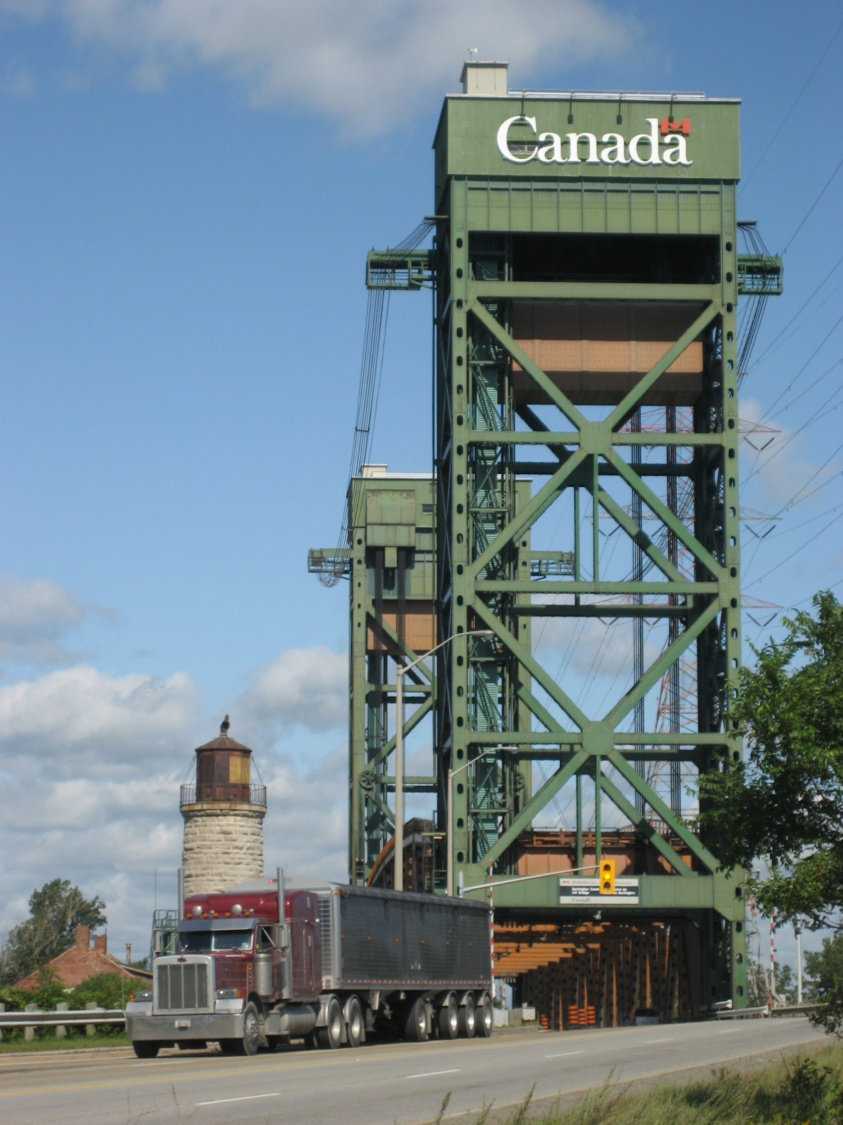 Burlington Canal Lift Bridge, view from Beach Boulevard, Hamilton, Canada.